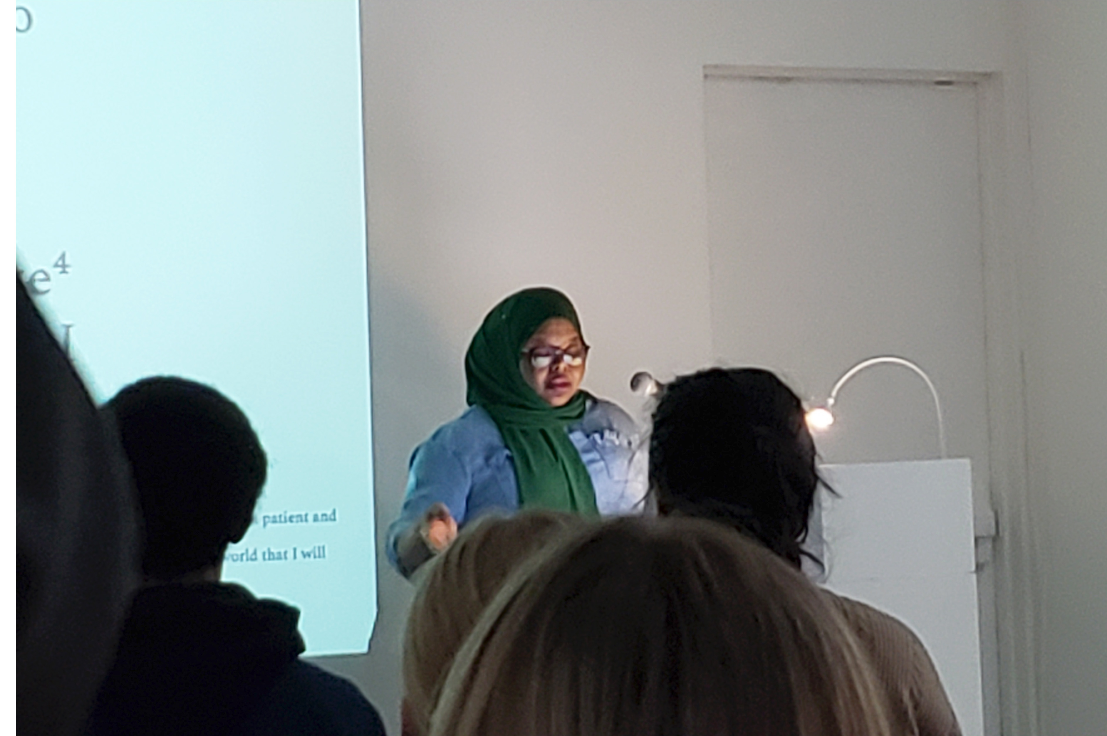 The artist Kameelah Janan Rasheed giving a talk about her work in the Jacob Lawrence Gallery at the University of Washington in Seattle on November 15th, 2019.